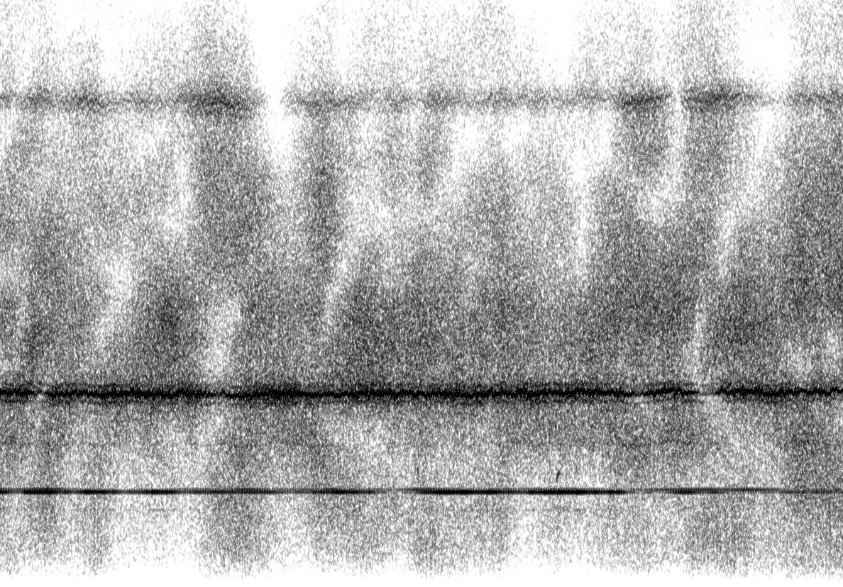 An unidentified radio signal at 6.600 MHz with strong propagation noise.